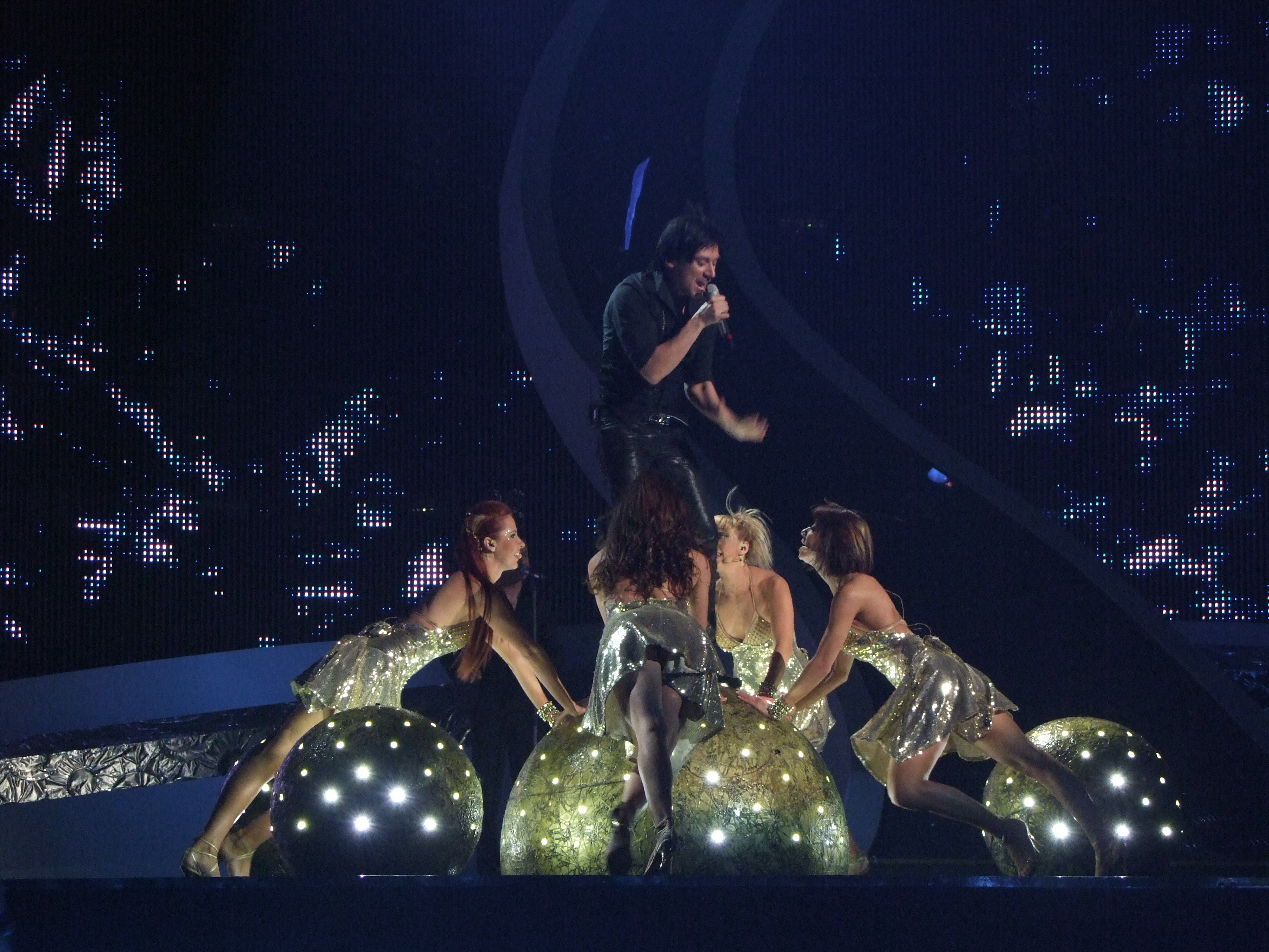 Ruslan Alekhno in the 2nd semi-final at the Eurovision Song Contest in Belgrade, Serbia, May 22, 2008.